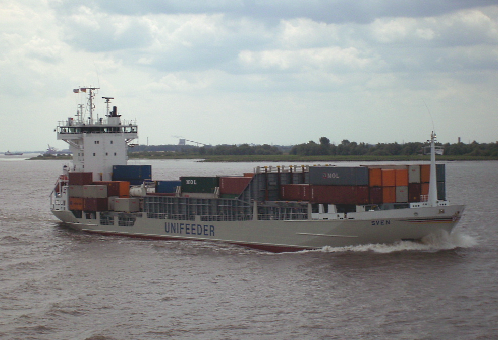 Unifeeder Sven on the river Elbe with destination port of Hamburg on 20 June 2008